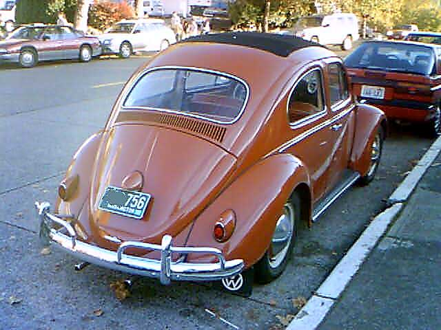 1961 VW Beetle rear view. Narrow licence plate light cover, wide rear window, simple tail lens, bumper over-ride guards.